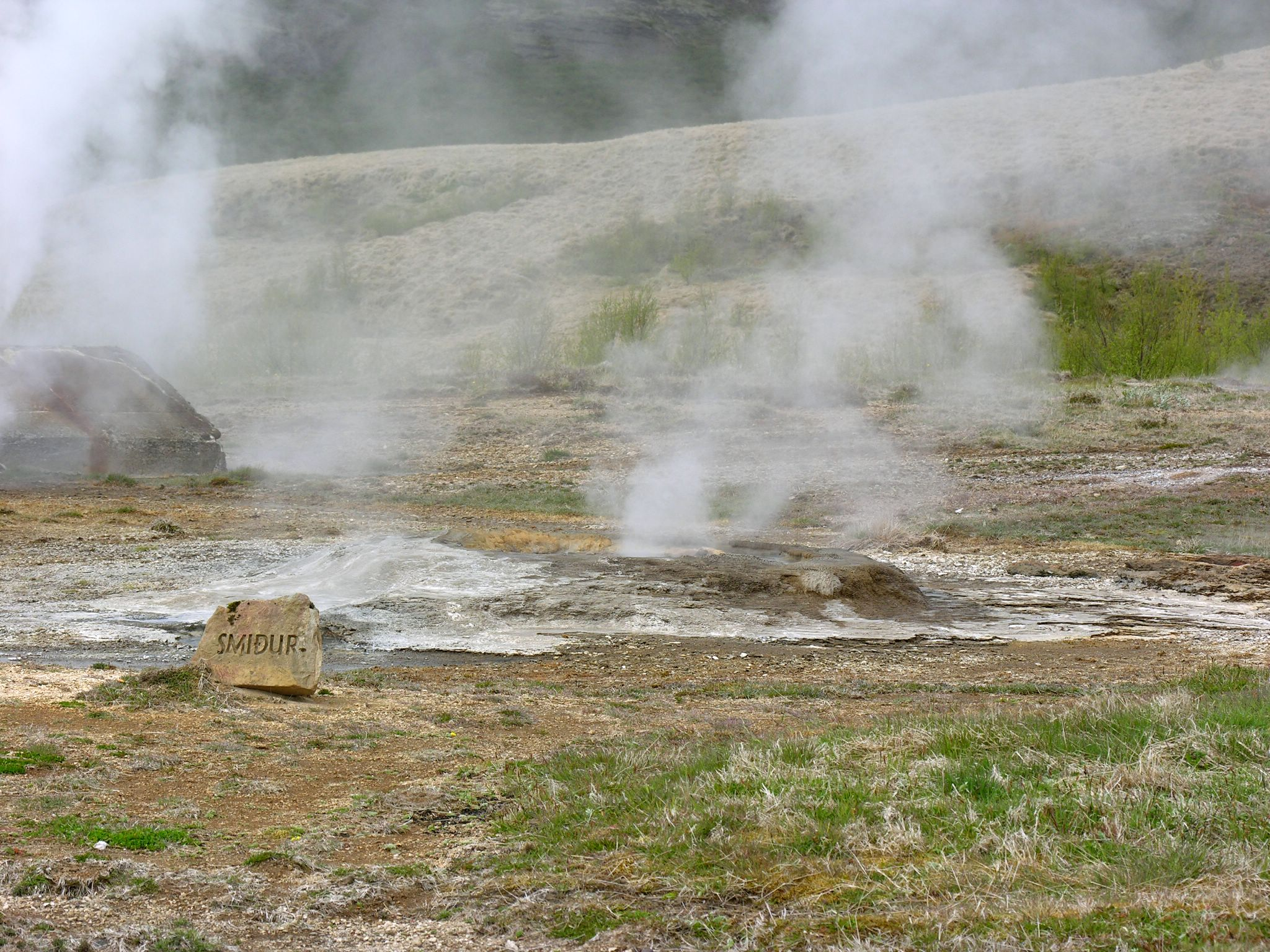 Geysir, Iceland